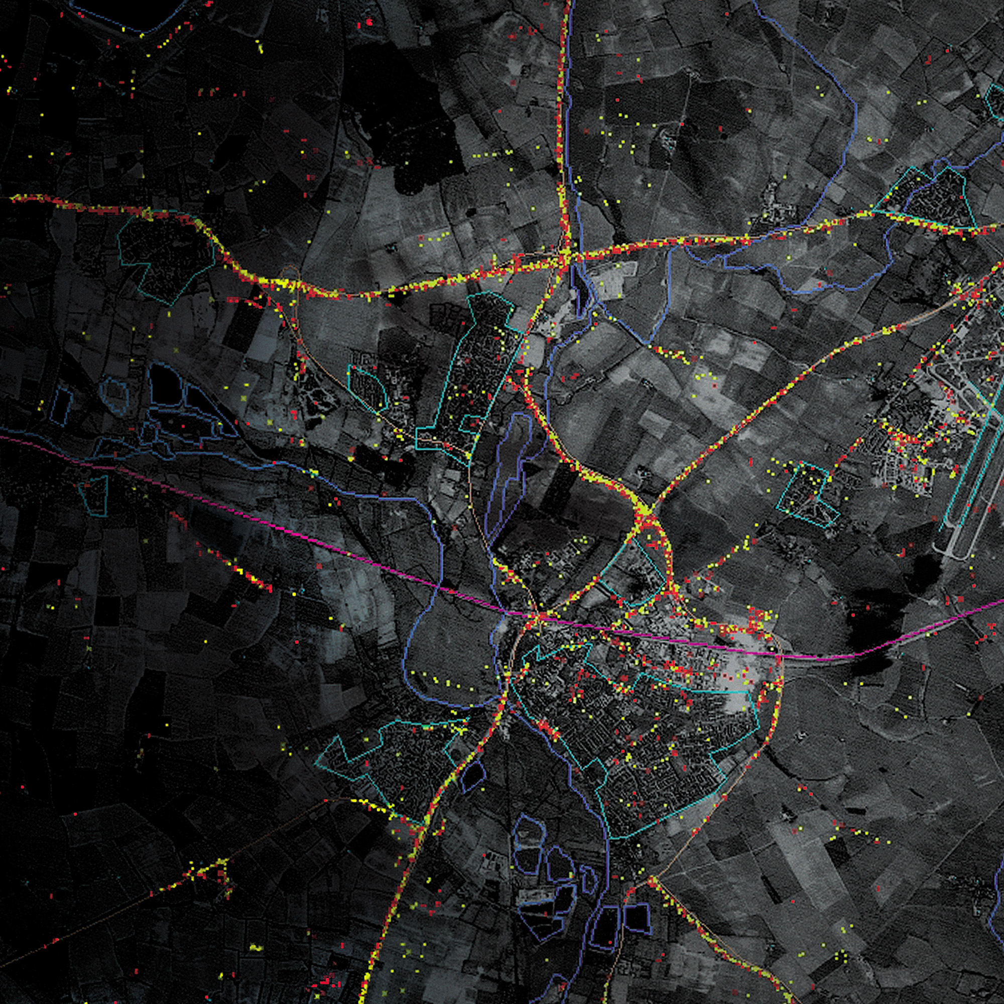 Joint STARS GMTI Overlaid on Overhead Imagery